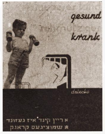 Ghetto Litzmannstadt: This poster, put out by the Judenrat reads: "A clean child is healthy. A dirty one is sick"